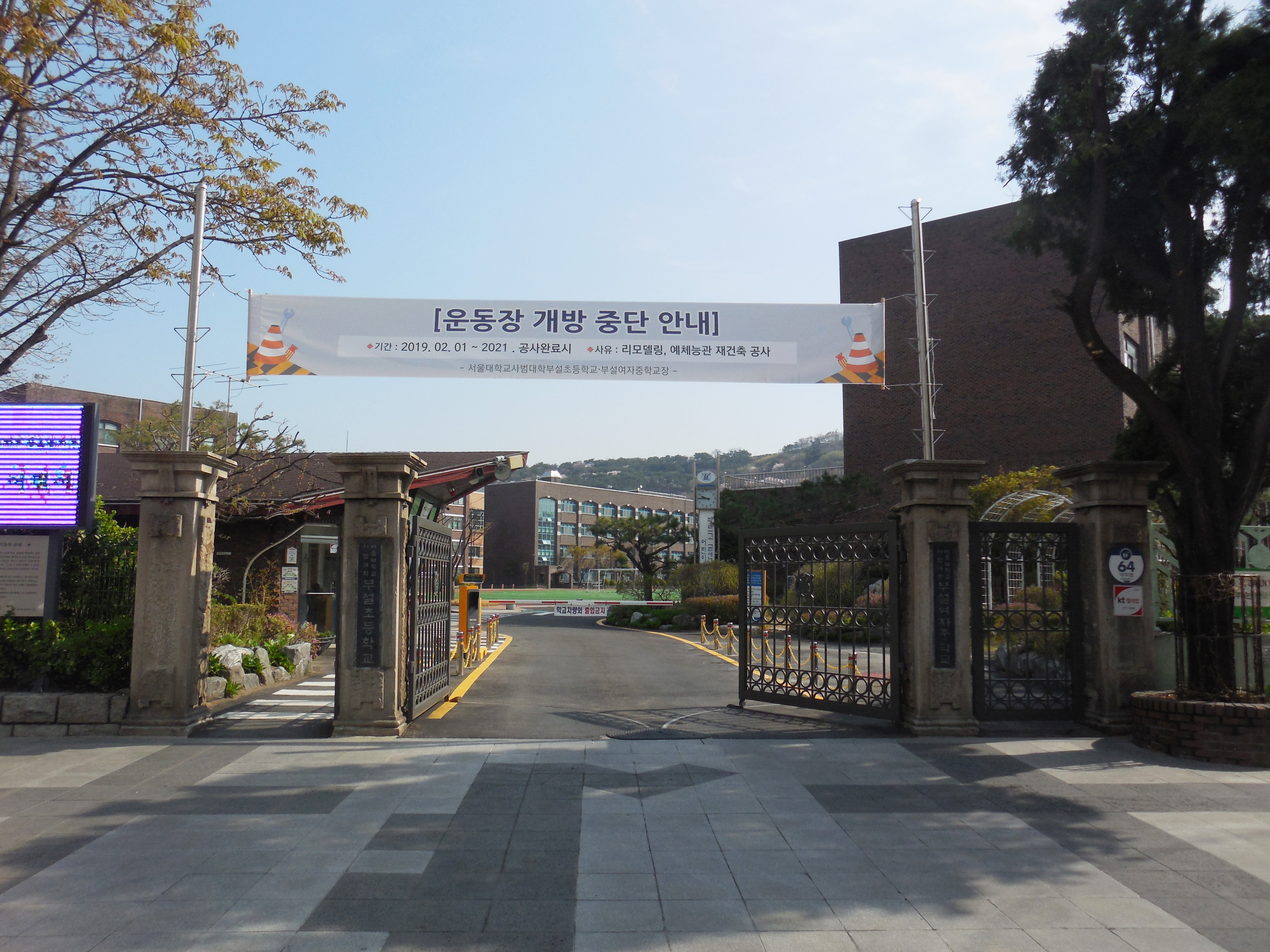 Original Main Gate of Tapgol Park.